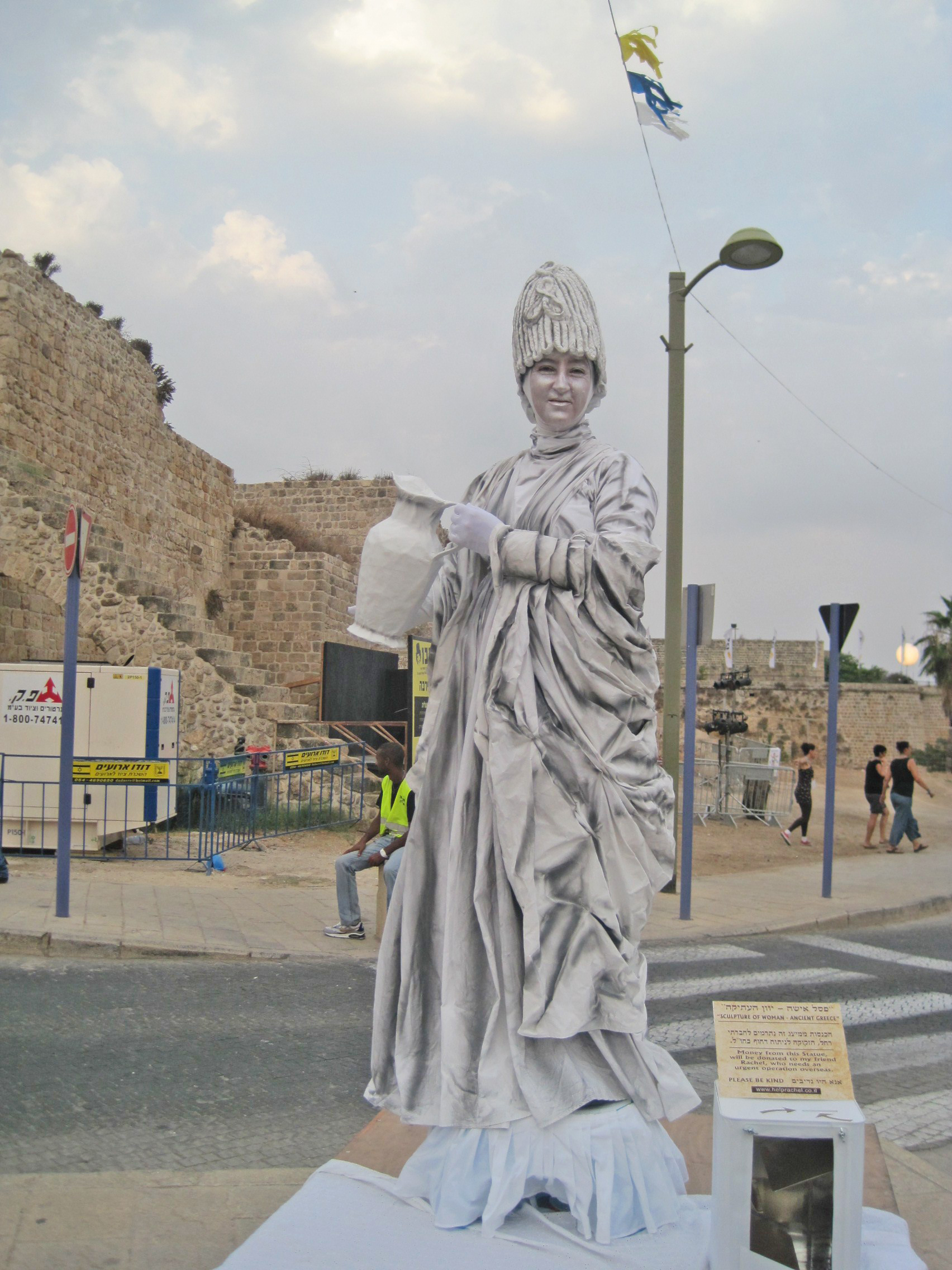 Acco Festival of Alternative Israeli Theatre